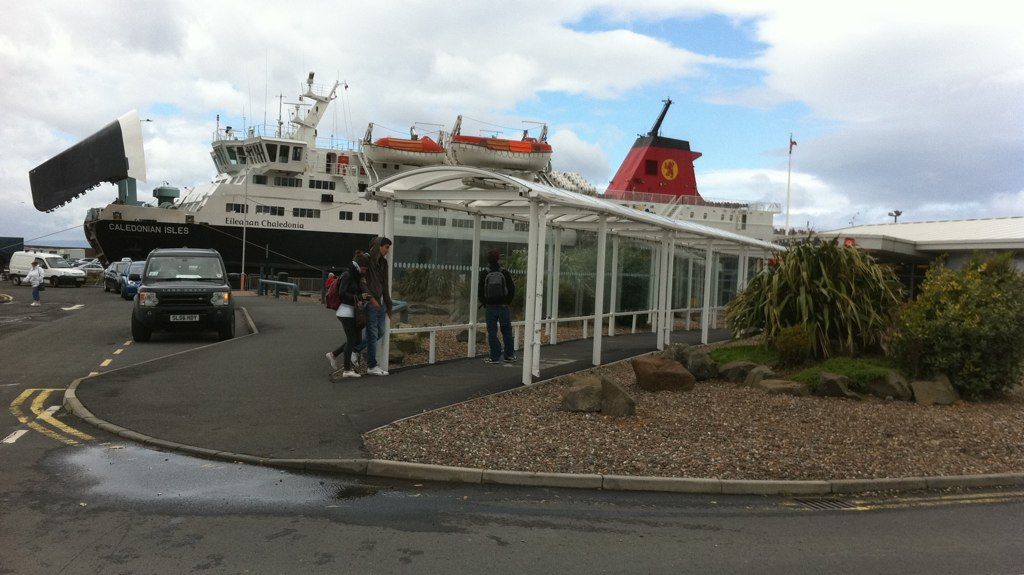 Ardrossan ferry terminal with MV Caledonian Isles in port.